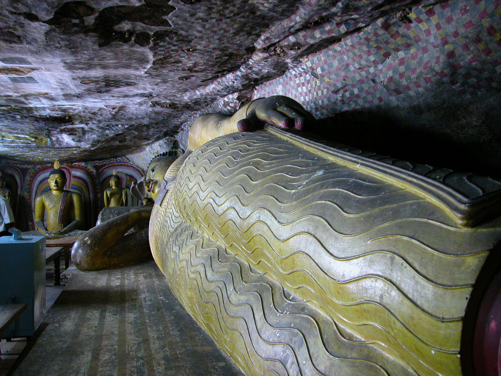 Golden Temple of Dambulla (Sri Lanka)